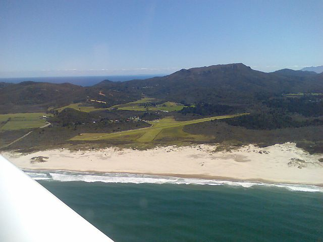 Great Barrier airfield from downwind at 1000ft, from the north east. Claris town behind the airfield. Photo taken approx Oct 2009.